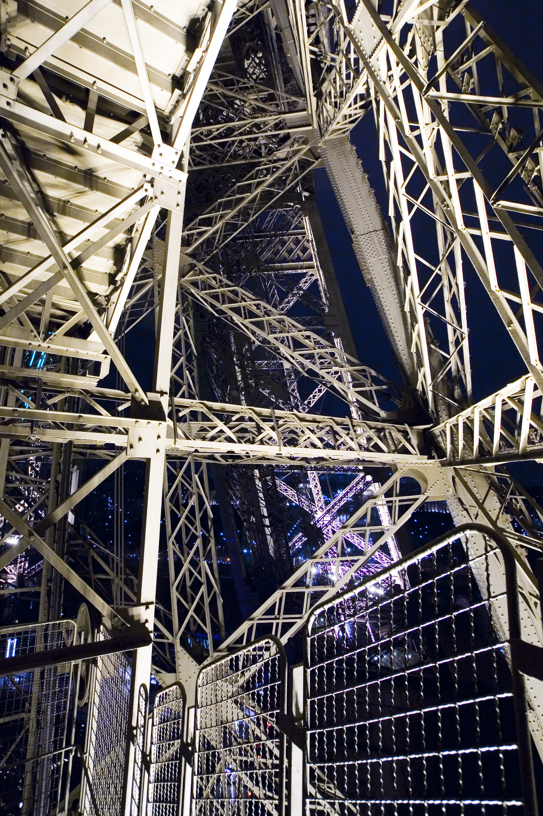 Shot of the eiffel tower from the stairs, by night.